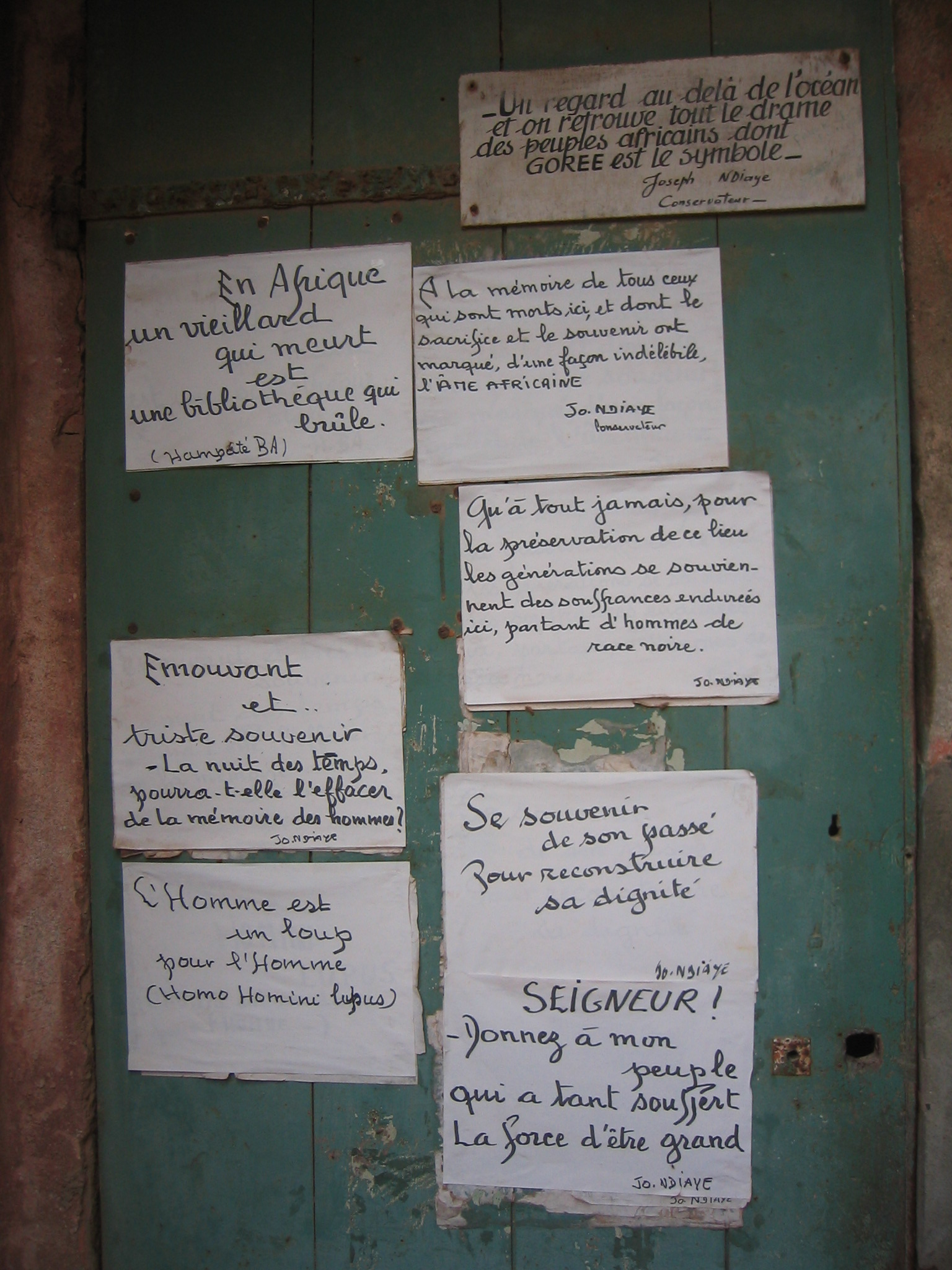 Writtings of Joseph Ndiaye, curator of the Museum of Slavery in Island of Gorée, Senegal.